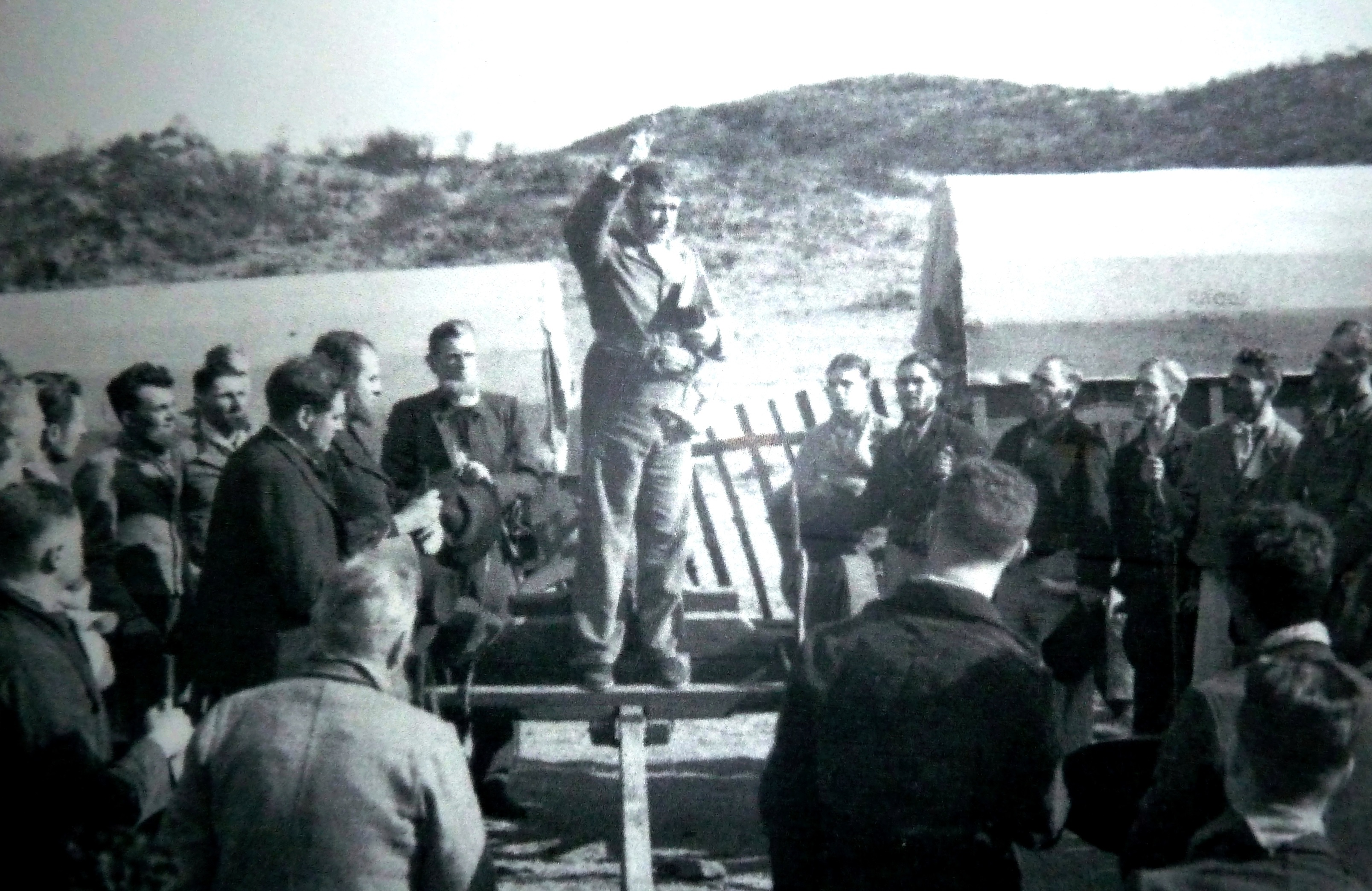 Reenactment of the vow taken by Cilliers and some 400 voortrekkers on 9 Dec. 1838 at the Wasbank River, and confirmed every evening up to the 15th when the enemy was in view. In 1938 the South African Railways and Harbours public relations department produced Die bou van 'n nasie / They built a nation, which included Myles Bourke as Piet Retief and actors of the "Volksteater-toneelgroep". The directors were Joseph Albrecht and A.A. Pienaar. Cilliers would recall in his memoirs: "I conceded in my weakness to the wish of all the officials, also was I aware that the majority of burghers were in favour of it. ... on a canon wagon [was the vow delivered] ... in a simple way, with as much dignity as the Lord enabled me to do."